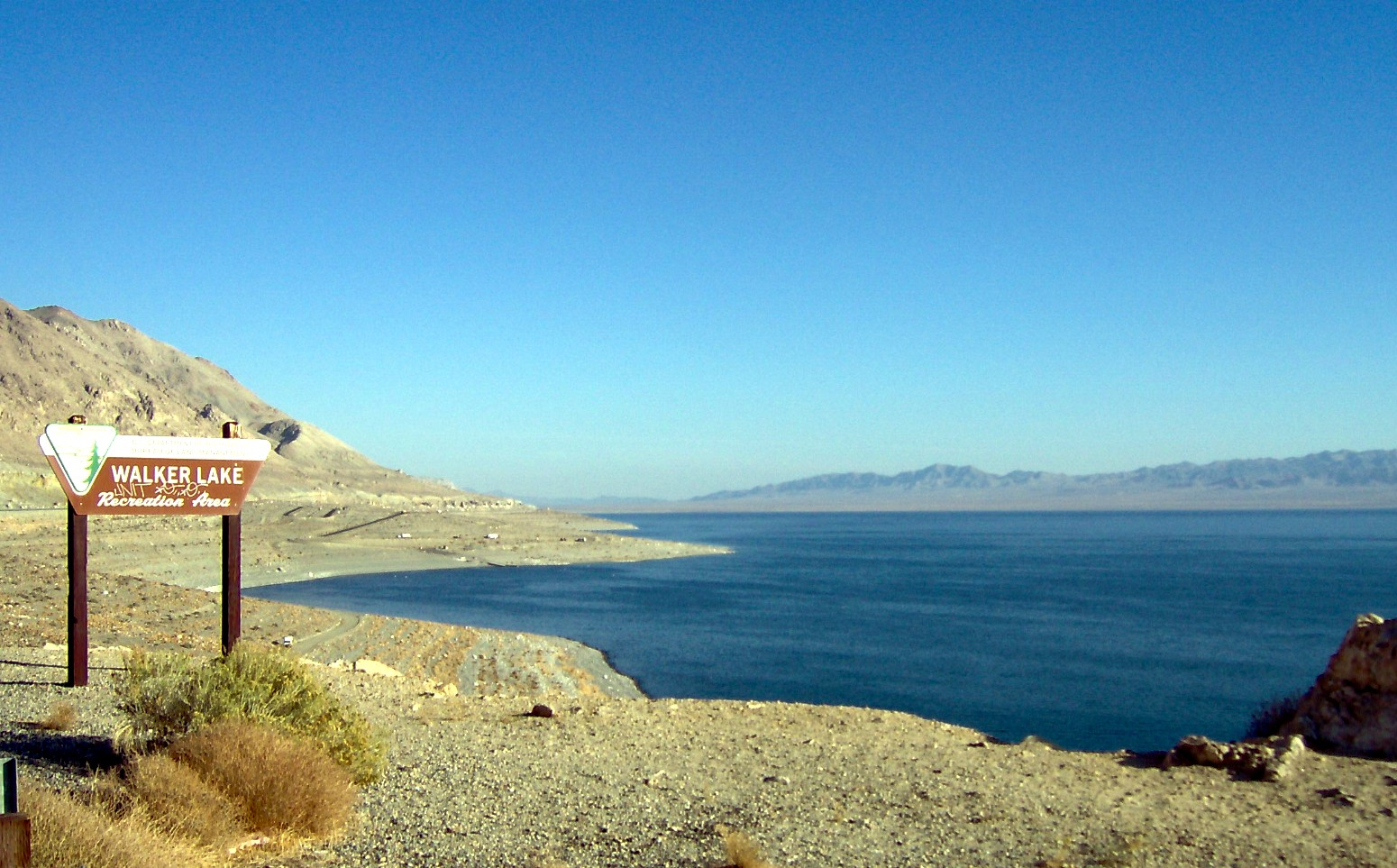 Walker Lake (Nevada), a natural lake located in Mineral County, Nevada.